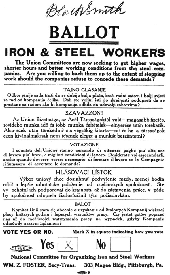 Union voting ballot for the Great Steel Strike of 1919. The ballot is for iron and steel workers and is given in multiple lanugages.